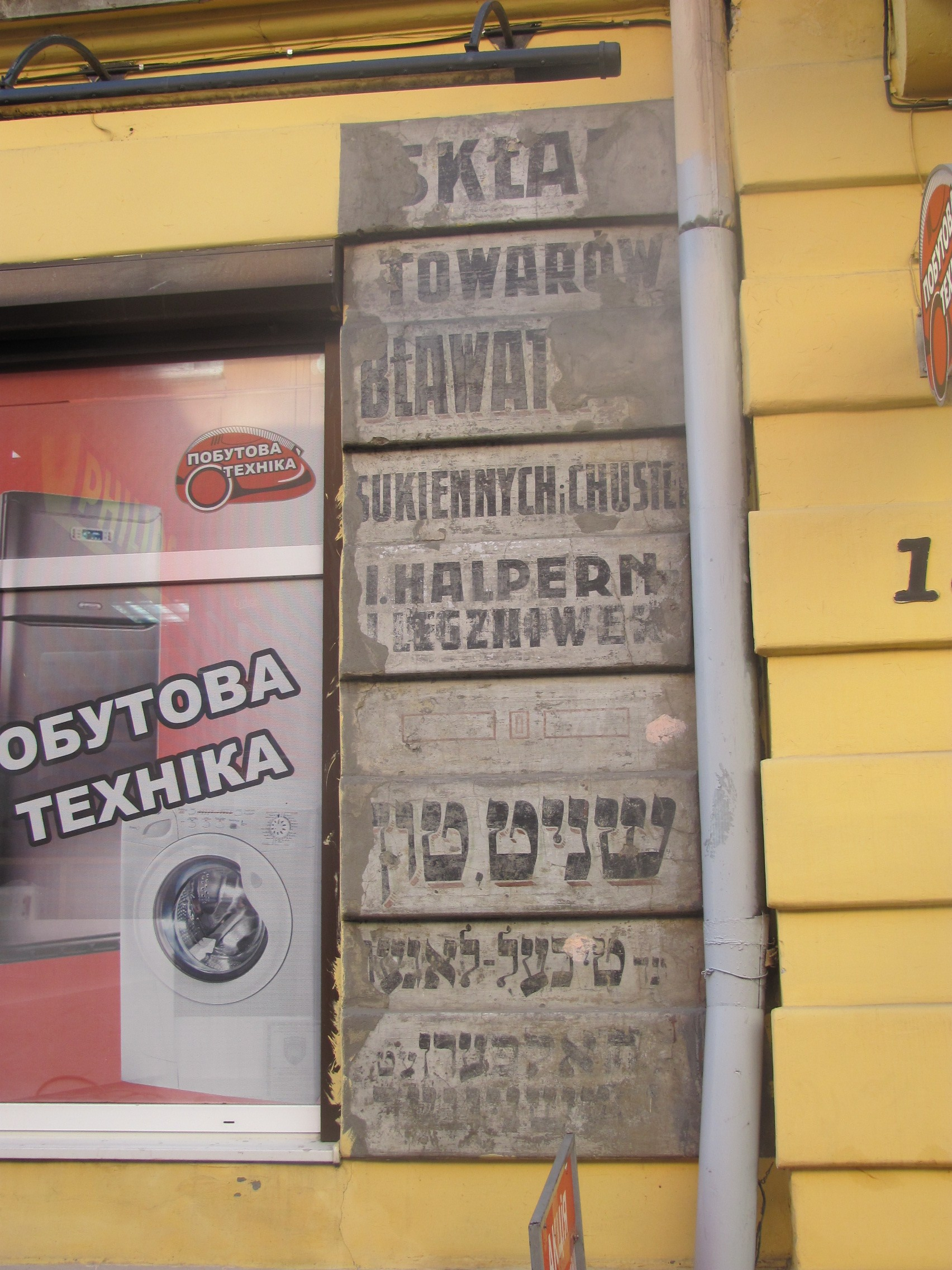 Ghost-sign in Lviv, Ukraine. Polish and yiddish languages used